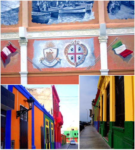 the first italian neighborhoods in Callao, Perú.